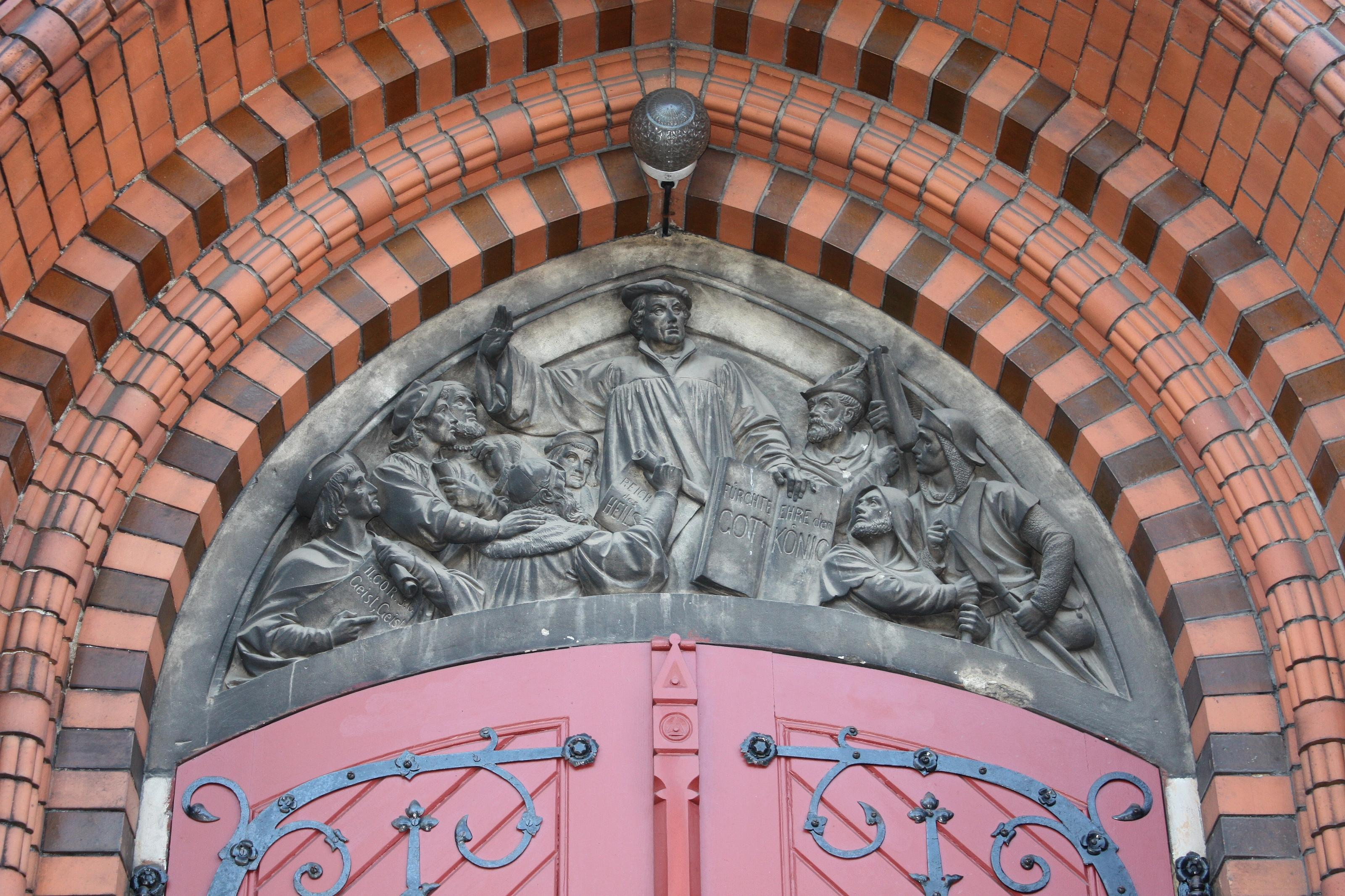 Aue, Saxony: Northern portal of Nikolaikirche church, detail.